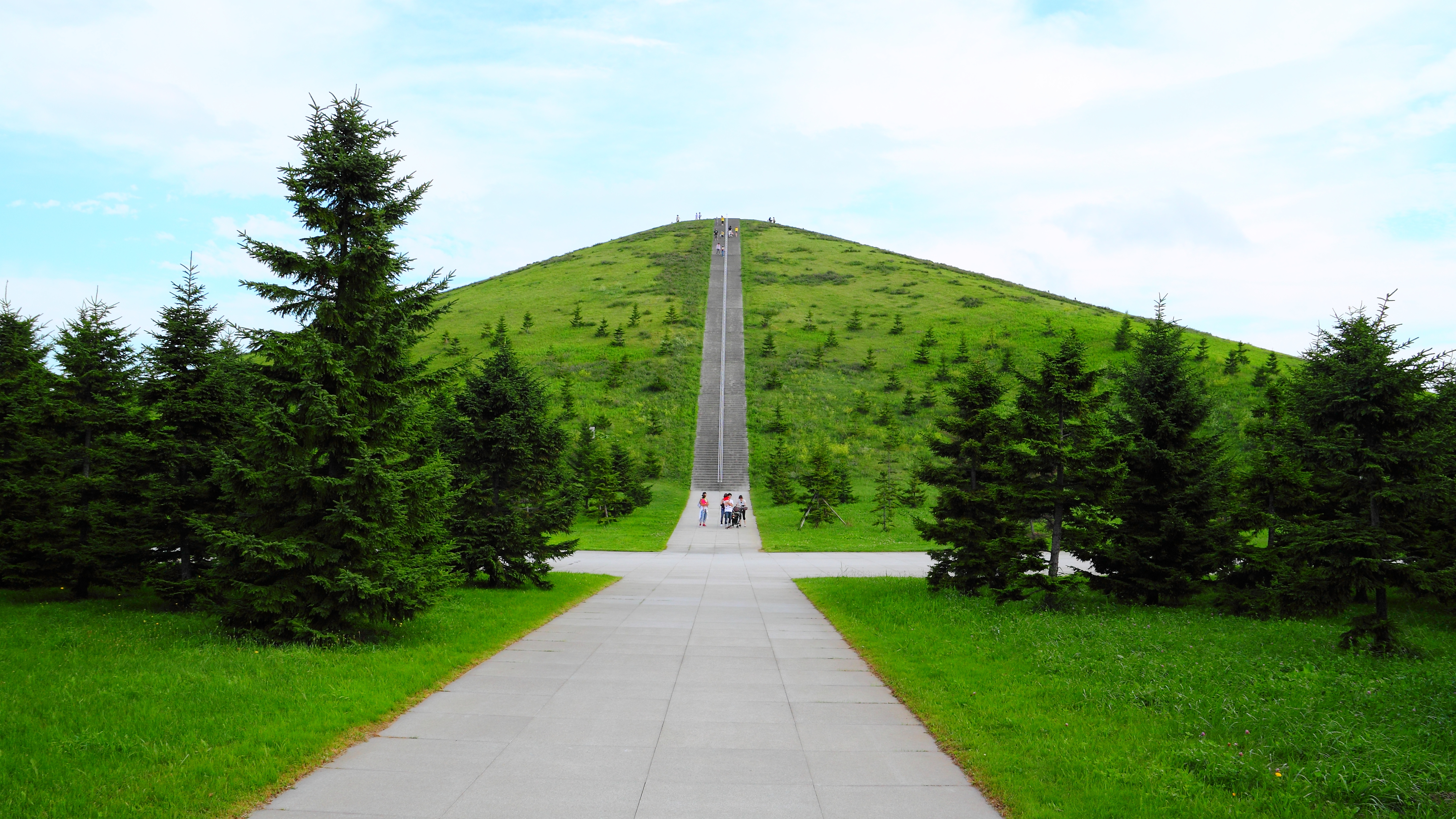 Mt. Moere in MoeleNuma Park, Sapporo, Japan.